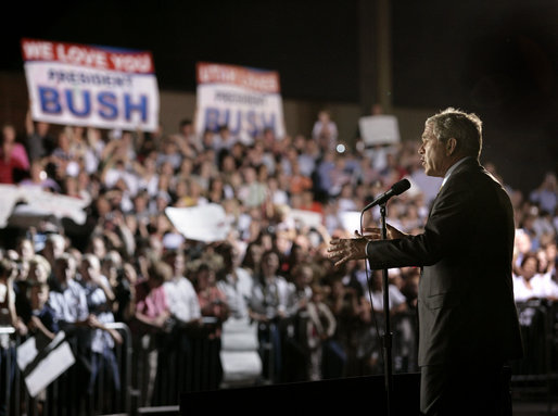 George W. Bush speaks the people during an airport welcome at the Utah Air National Guard in Salt Lake City